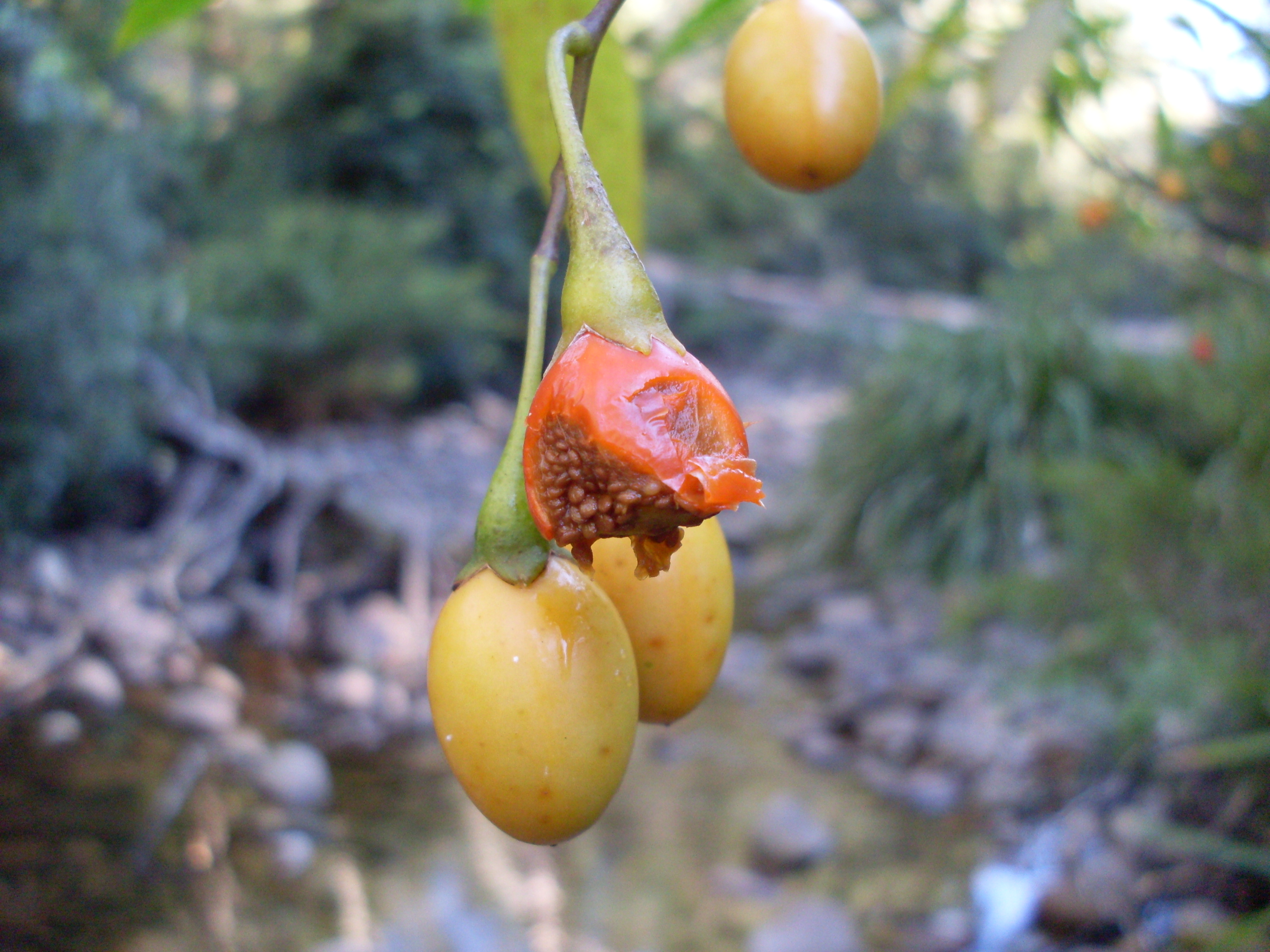 Unripe fruit of the Kangaroo apple (Solanum aviculare) contain the alkaloid solasidine, which is supposed to be toxic. Bimberamala Creek, Morton National Park, NSW Australia, May 2009.